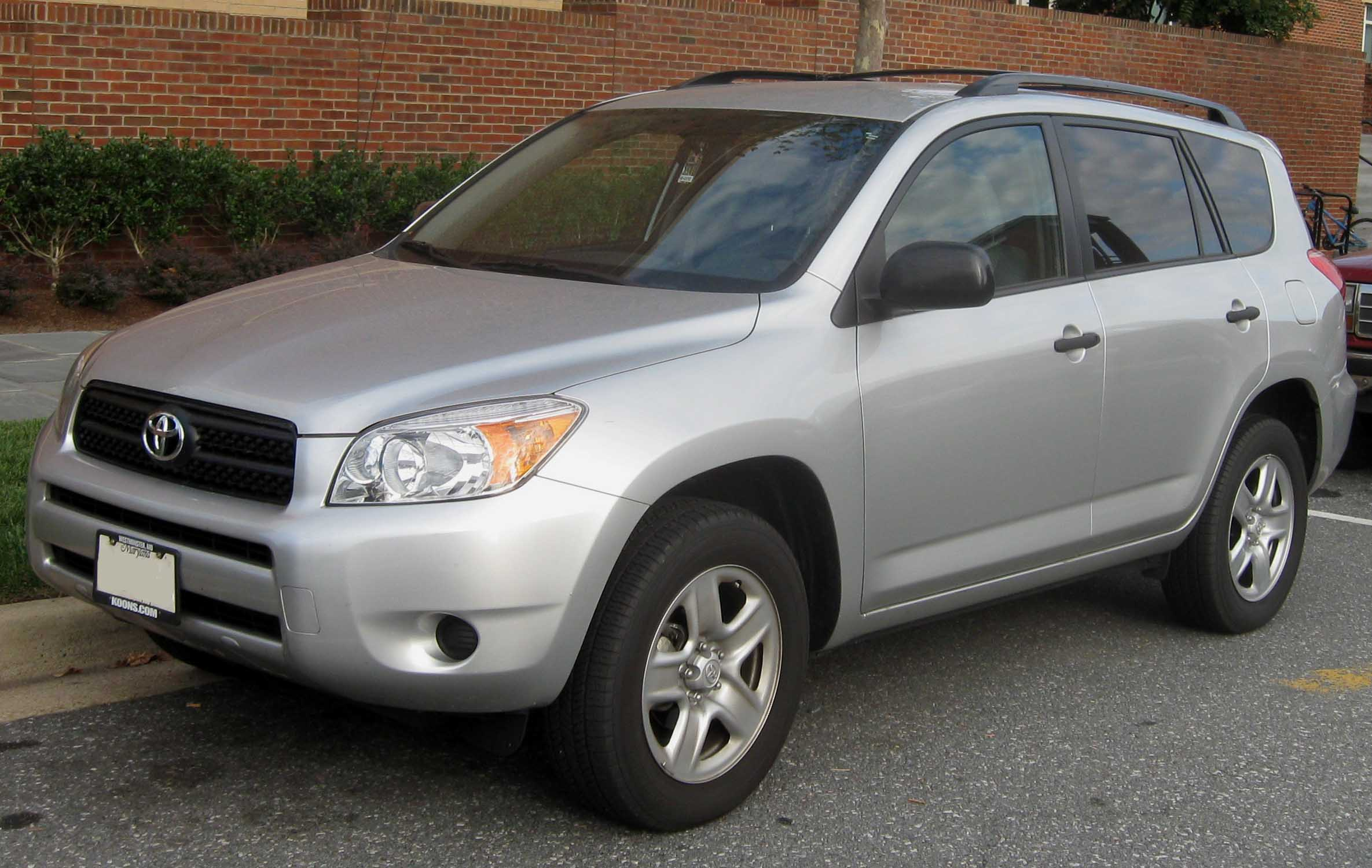 2006-2008 Toyota RAV4 photographed in College Park, Maryland, USA.